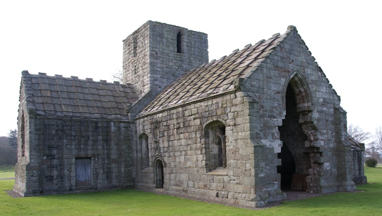 Dunglass Collegiate Church, East Lothian, Scotland